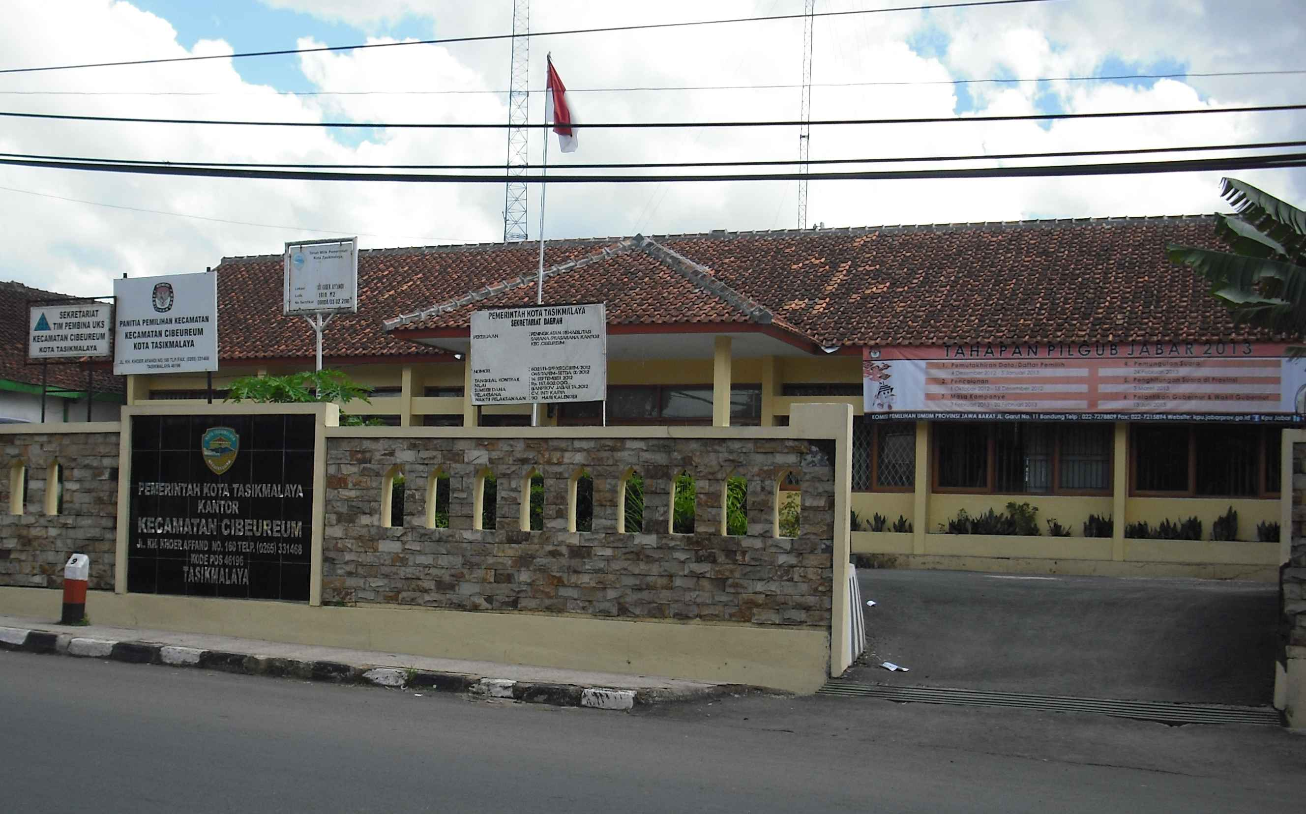 Office Bulding of Cibeureum District, Tasikmalaya City, West Java Province, Indonesia